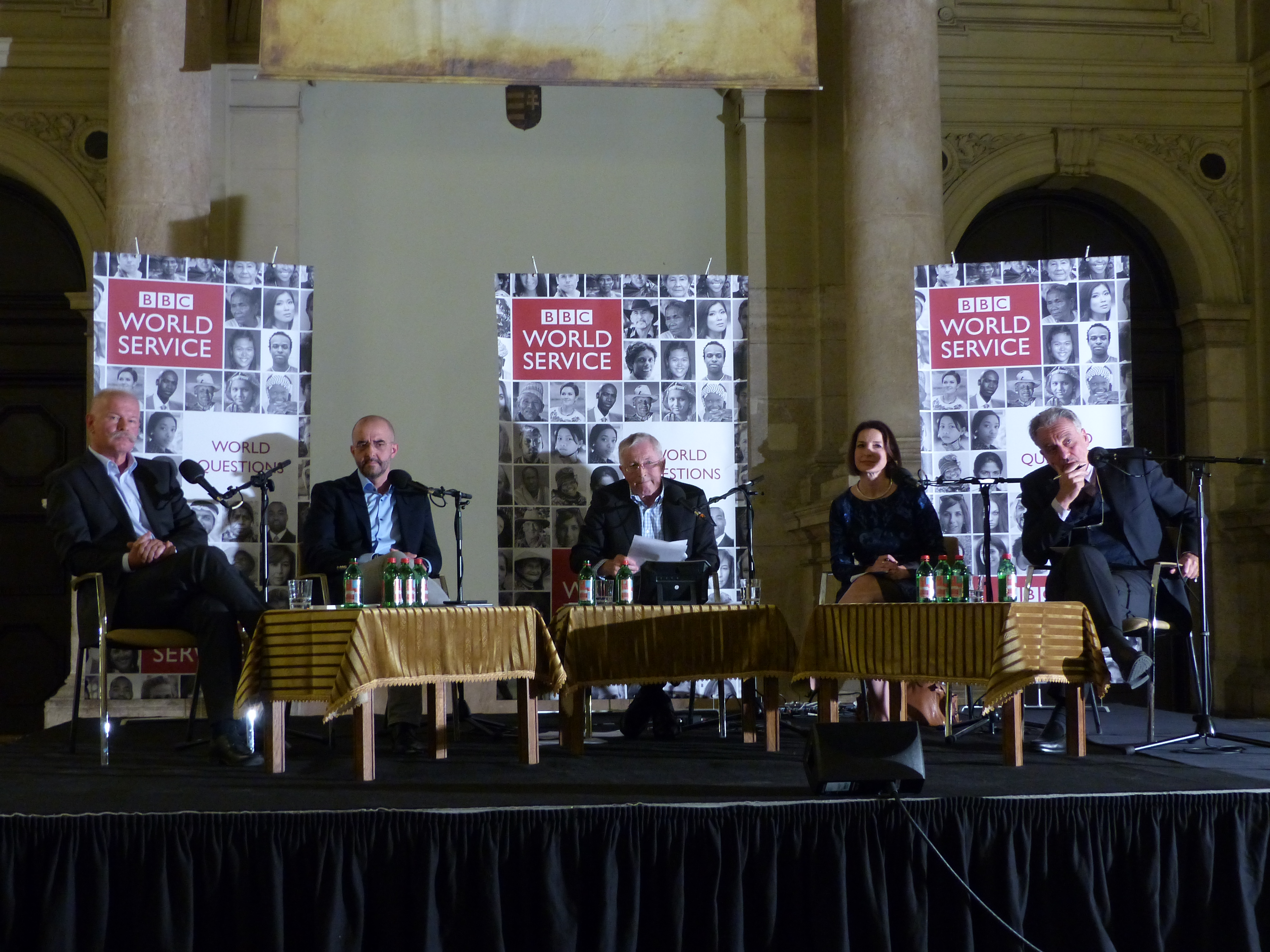 The BBC World Service hold a debate on Wednesday, 5th of October, 2016. Corvinus University of Budapest as part of a series of debates across Europe, as the continent grapples with the issues of migration. Topics included Hungaryʼs October 2 referendum and EU quotas for refugee relocation. Broadcaster Jonathan Dimbleby invited members of the public to put questions to a panel of politicians and thinkers to debate the issues affecting Hungary - related to the October 2 referendum on refugee quotas - as well as the general situation of post-Brexit Europe today. The panel includes Kovács Zoltán, government spokesman at the Hungarian Prime Ministerʼs Office; Csák János, business leader and former Hungarian ambassador to the United Kingdom; and Professor Loukas Tsoukalis, a Greek expert on the European Union. The BBC announced. “The BBC World Service is the home of international debate, and this time we are bringing World Questions to Budapest in the wake of an important vote on EU migrant plans,” said Mary Hockaday, Controller of BBC World Service English. “We are delighted to be hosting this debate at Corvinus University, which was at the heart of the Hungarian uprising 60 years ago, providing a fitting location for a free and open debate. “Itʼs an honor to welcome BBCʼs World Questions program at our university,” commented András Lánczi, Rector of Corvinus University. “Corvinus University has always been an important space for discussing the public affairs of Hungary and the world. The issues on the agenda are indeed of historical significance, so we are looking forward to hosting a vivid conversation regarding the complex questions of economy, migration and security in Europe.”